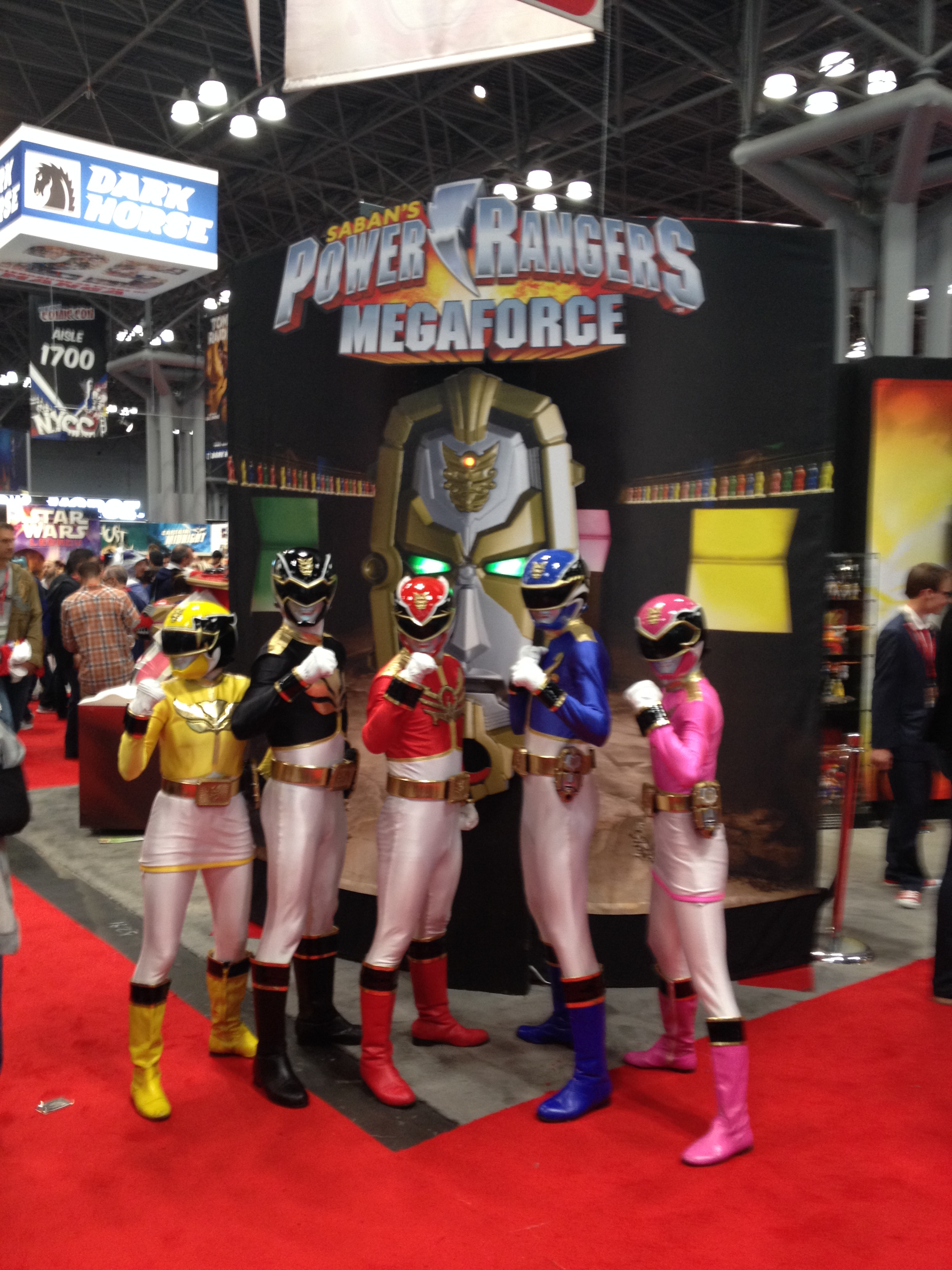 Cosplayers at the NYCC